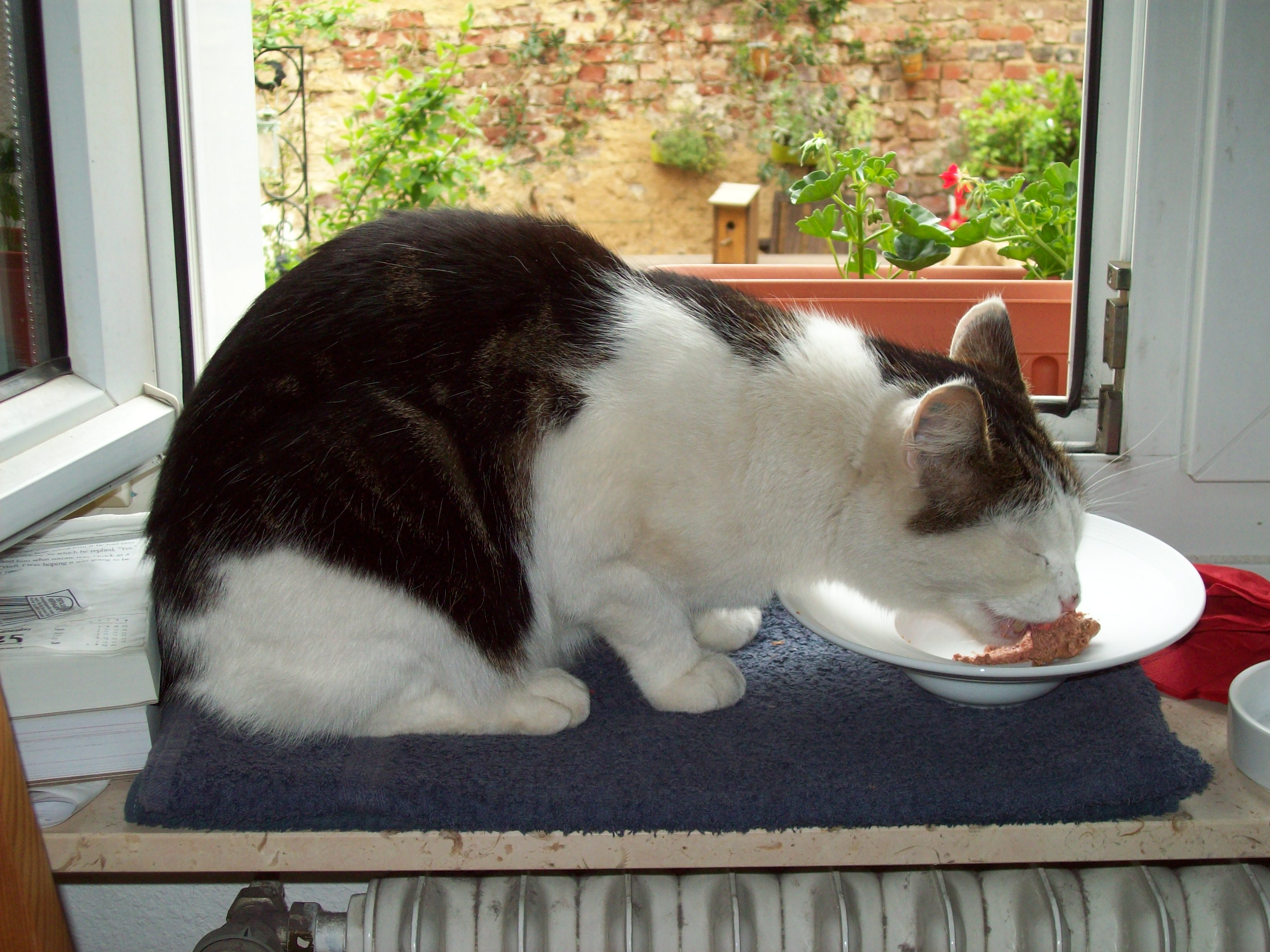 A cat enjoying a meal.